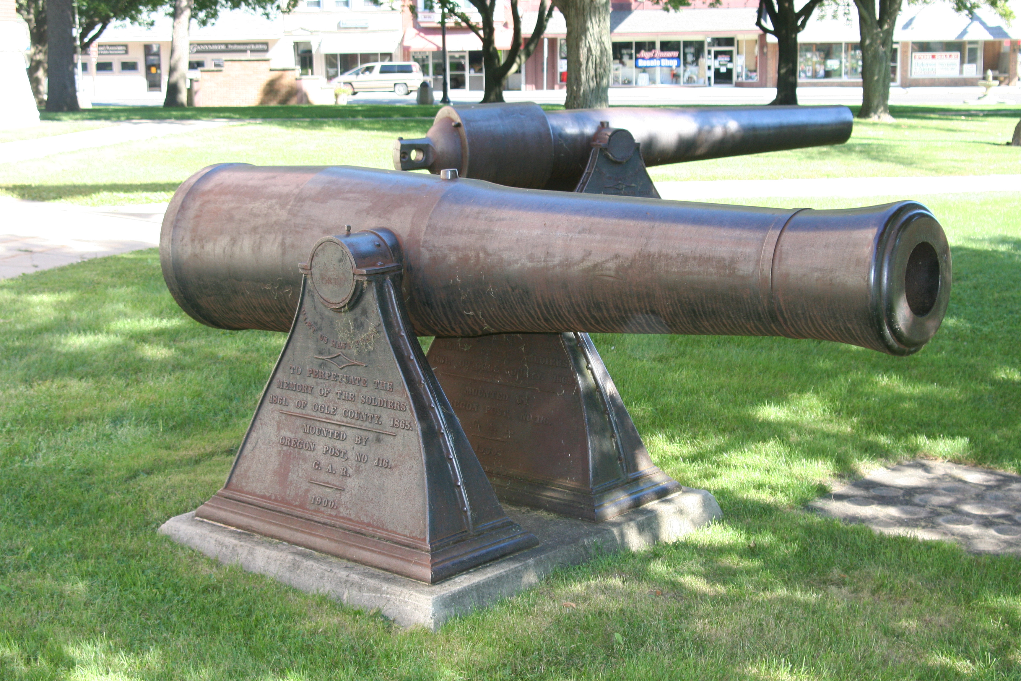 The Columbiad Cannon located in Oregon, Illinois, USA.